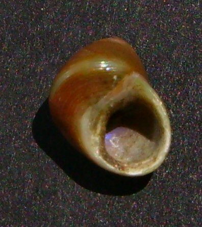 Cantharidus dilatatus (G.B. Sowerby II, 1870) (synonym: Micrelenchus dilatatus) (underside) from Wenderholm, near Auckland, New Zealand. This work has been released into the public domain by its author, Graham Bould. This applies worldwide. In some countries this may not be legally possible; if so: Graham Bould grants anyone the right to use this work for any purpose, without any conditions, unless such conditions are required by law.